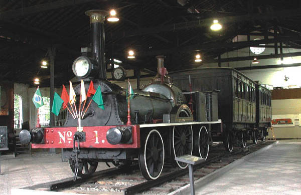 Locomotiva "A Baroneza", exposta no Museu do Trem, administrado pela Rede Ferroviária Federal.